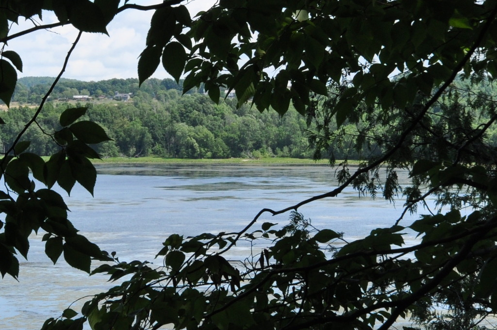 The approximate location of VT-AD-12, aka the Orwell Site, an archaeological site in Orwell, Vermont.